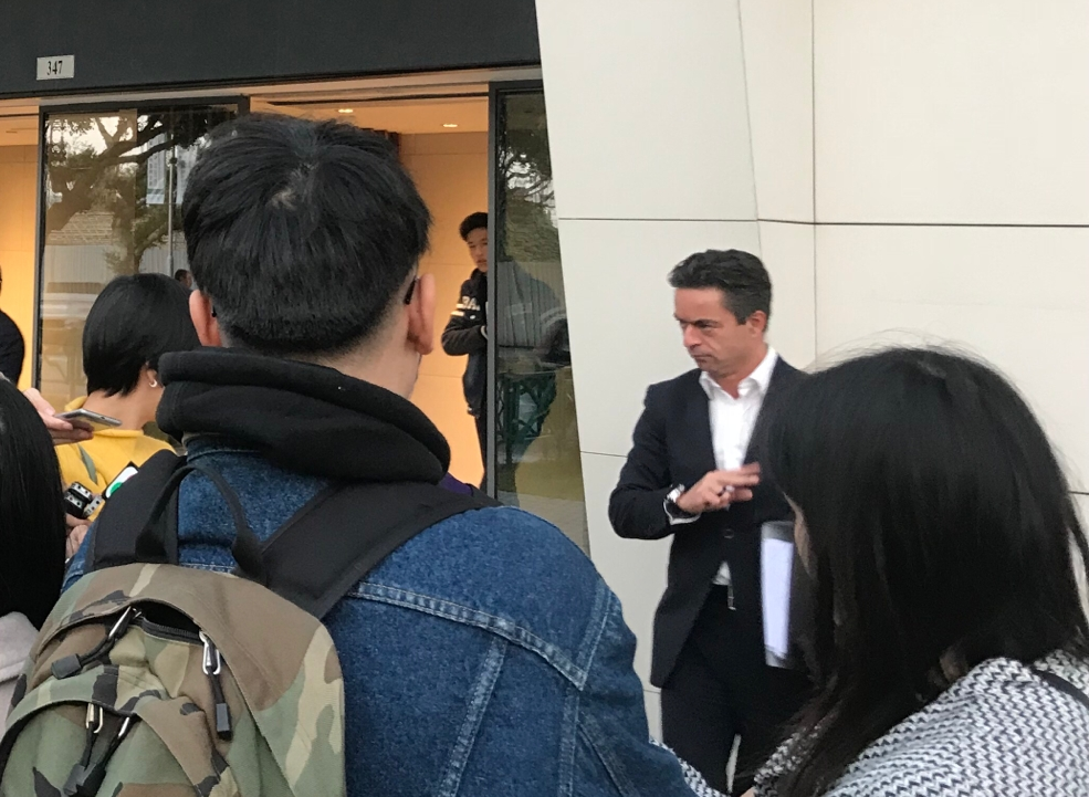 The case between PORLITEC and SOUPOU